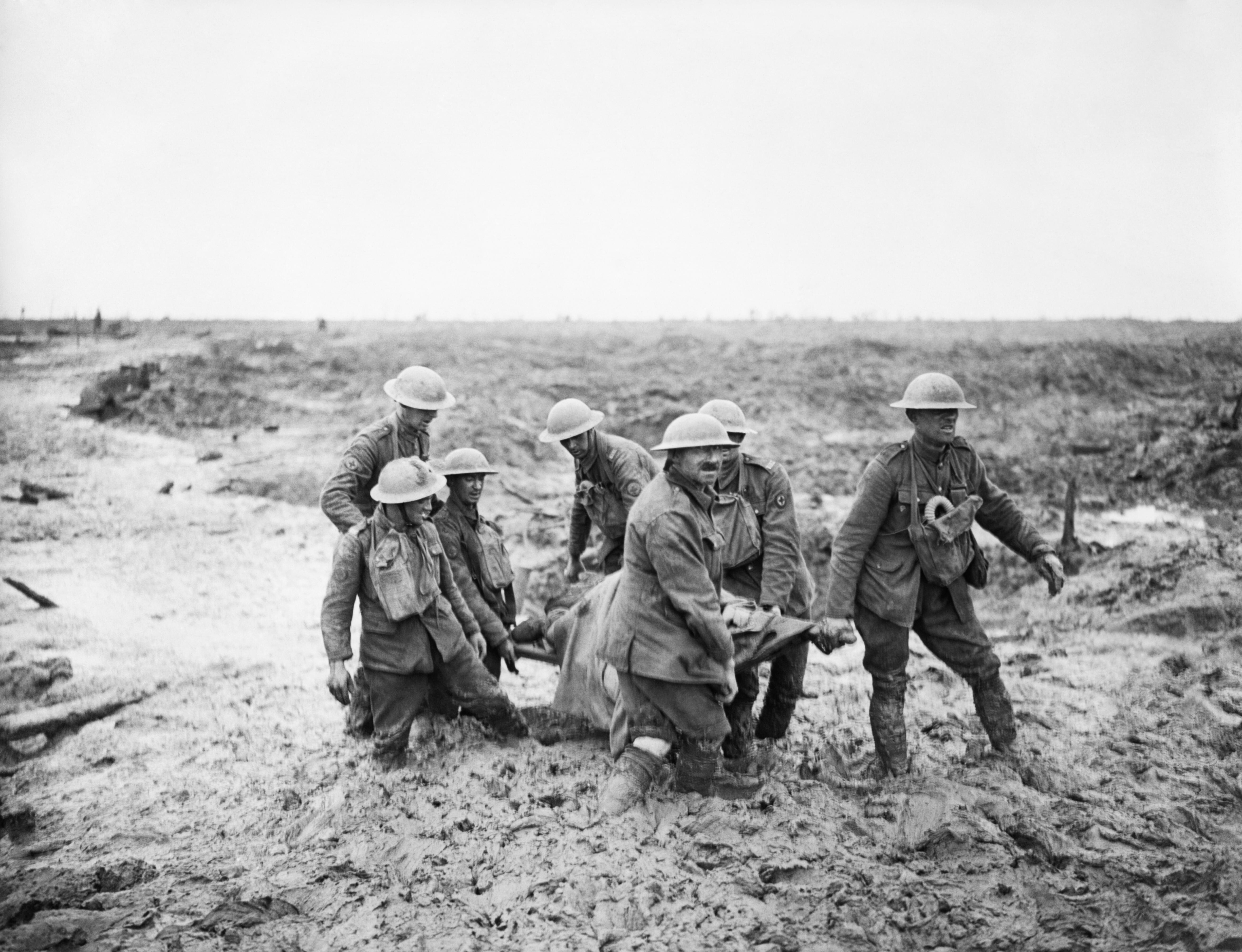 A team of stretcher bearers struggle through deep mud to carry a wounded man to safety near Boesinghe on 1 August 1917 during the Third Battle of Ypres. Battle of Pilckem Ridge. Stretcher bearers struggle in mud up to their knees to carry a wounded man to safety near Boesinghe, 1 August 1917.